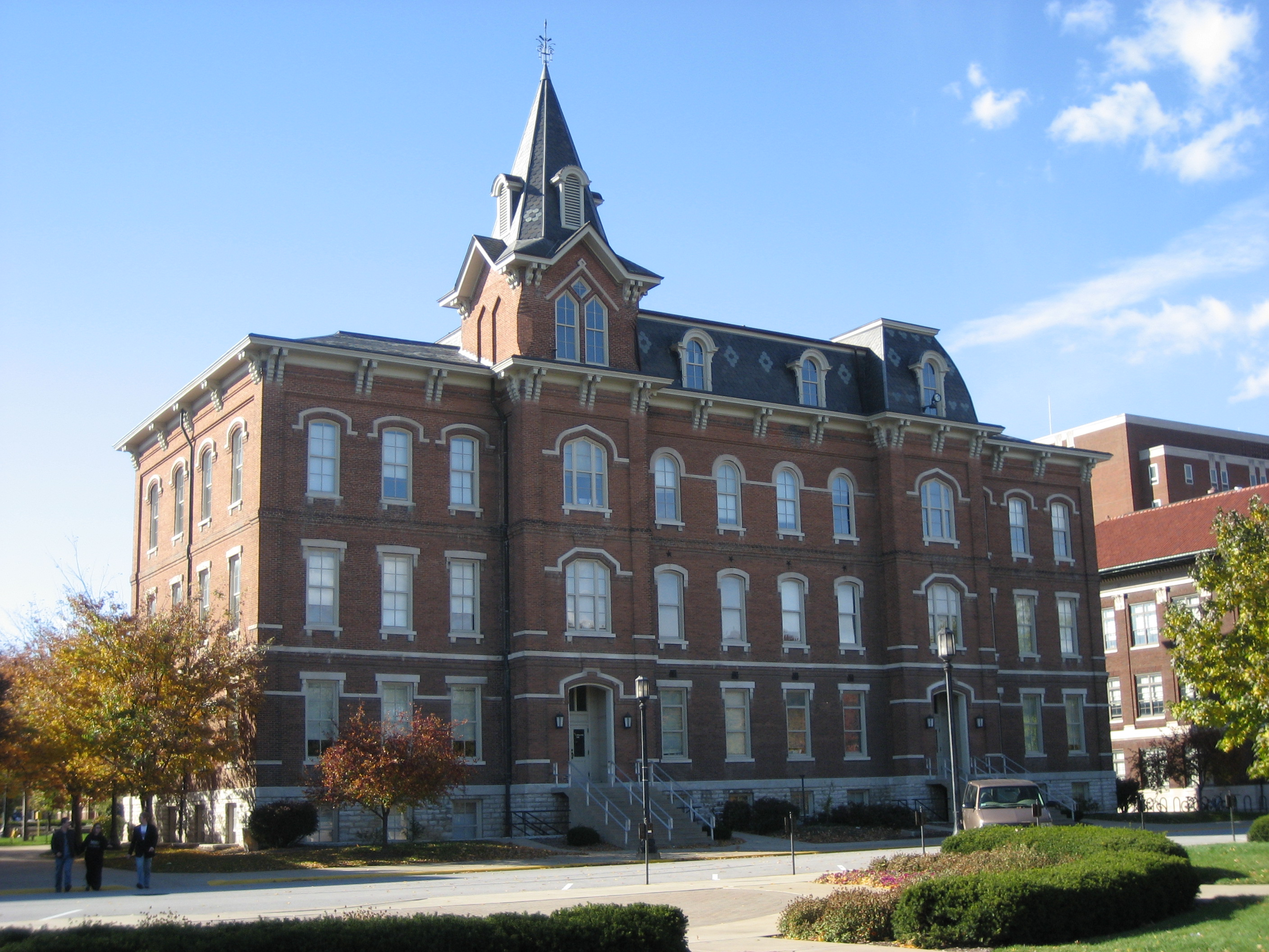 University Hall in Purdue University main campus in West Lafayette, IN